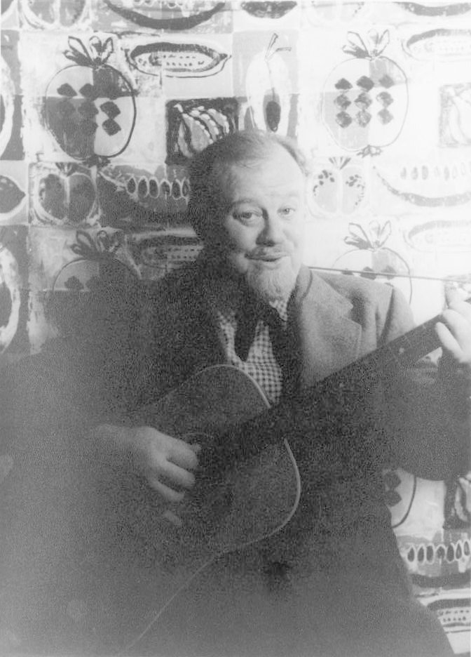 Burl Ives, American actor and folk singerPortrait of Burl Ives, holding guitar